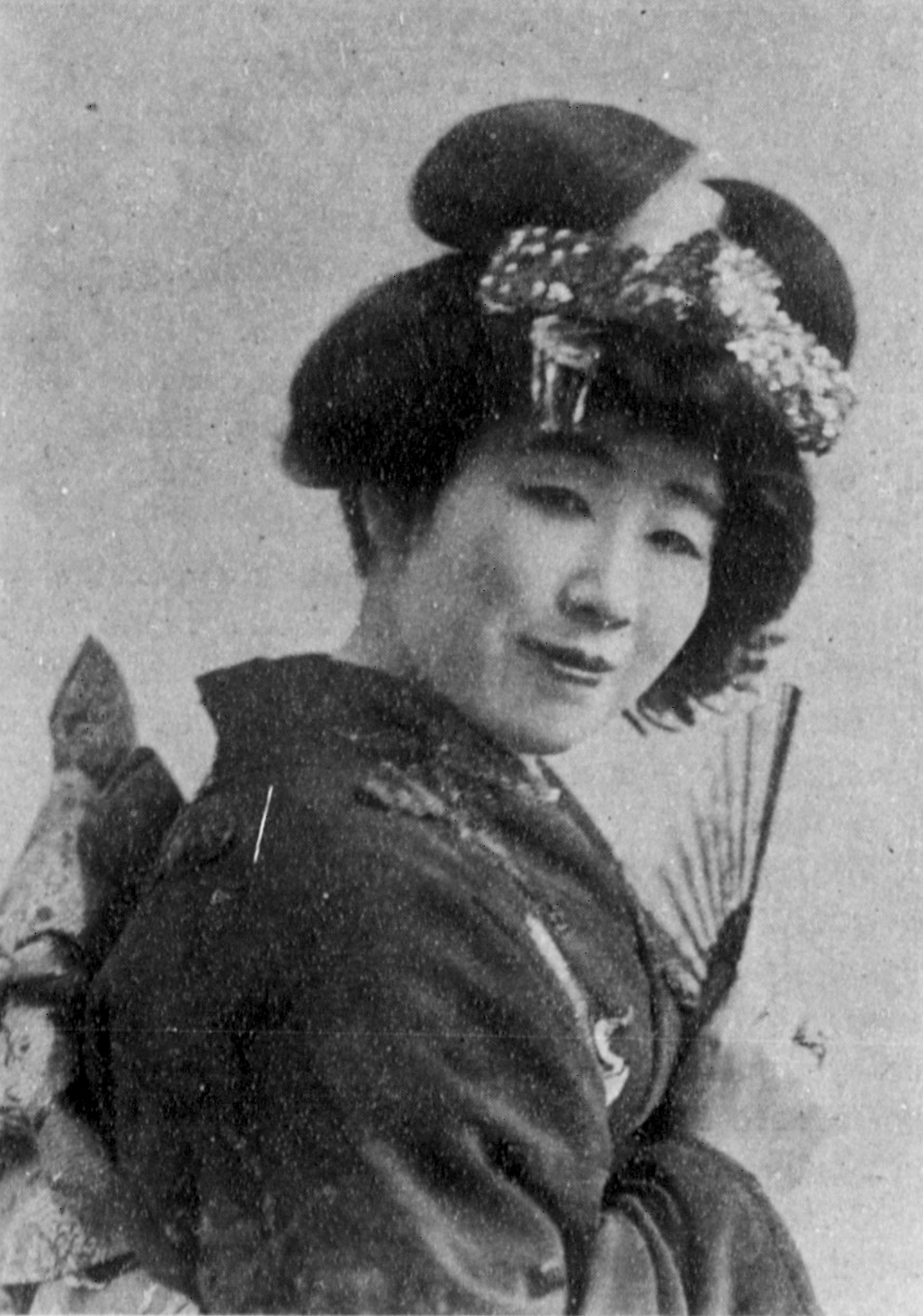 Tamaki Miura (三浦 環, February 22, 1884 – May 26, 1946) was a Japanese opera singer who performed as Cio-Cio-San in Puccini's Madama Butterfly. This is a publicity photo published in a newspaper.